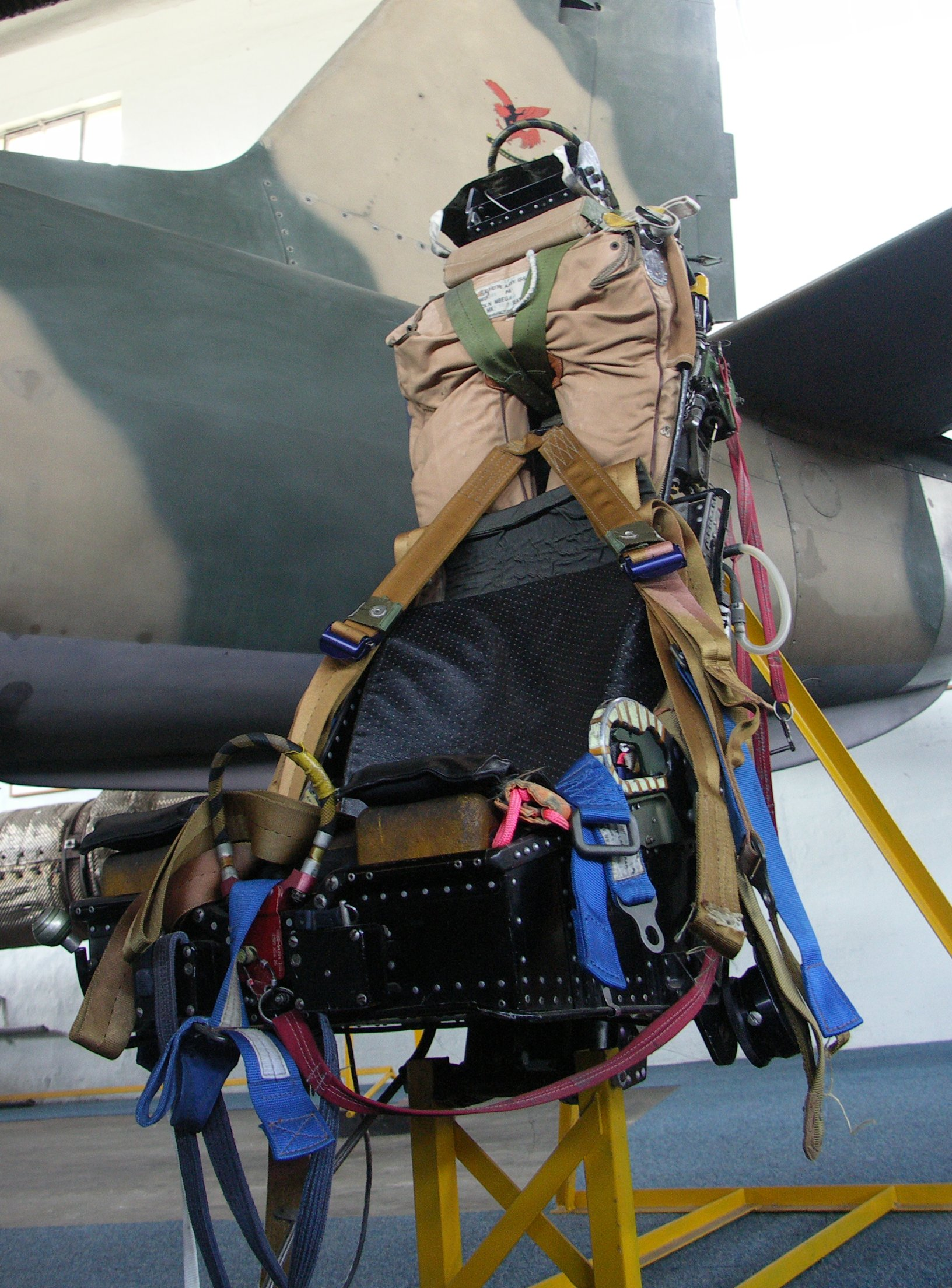 Martin Baker WY6Am Ejection Seat from an Impala Mk II. Photo taken at the South African Airforce Museum, Port Elizabeth